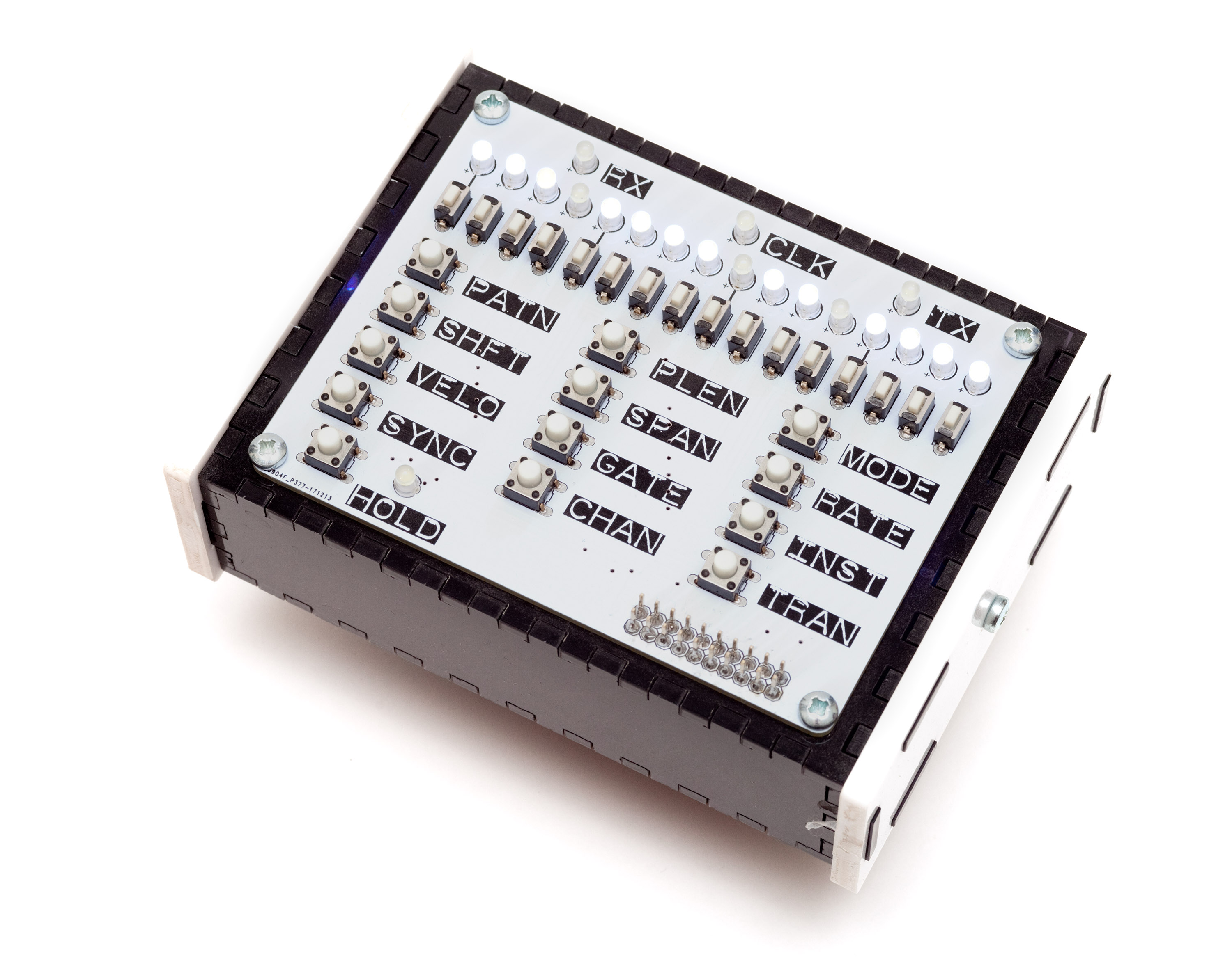 An ARPIE MIDI arpeggiator